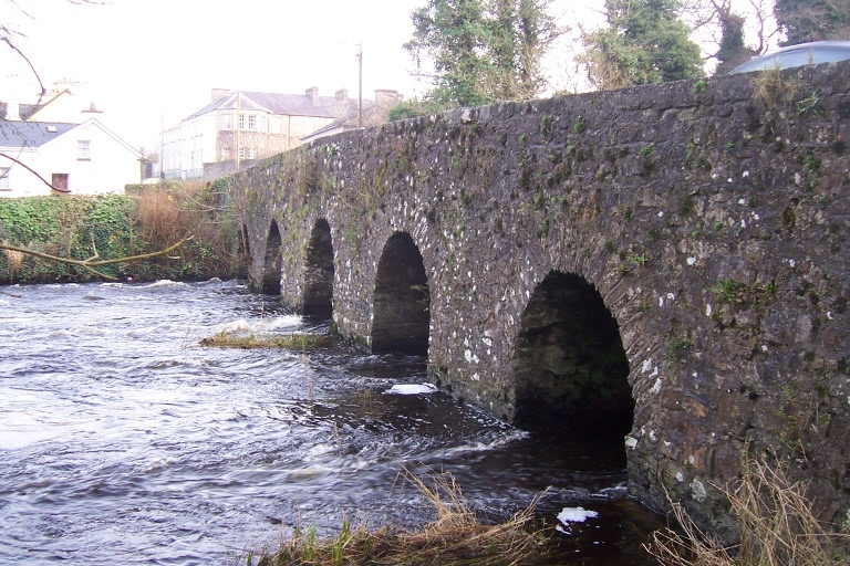 12th Century bridge over the River Boyle near Boyle Abbey, County Roscommon, Ireland